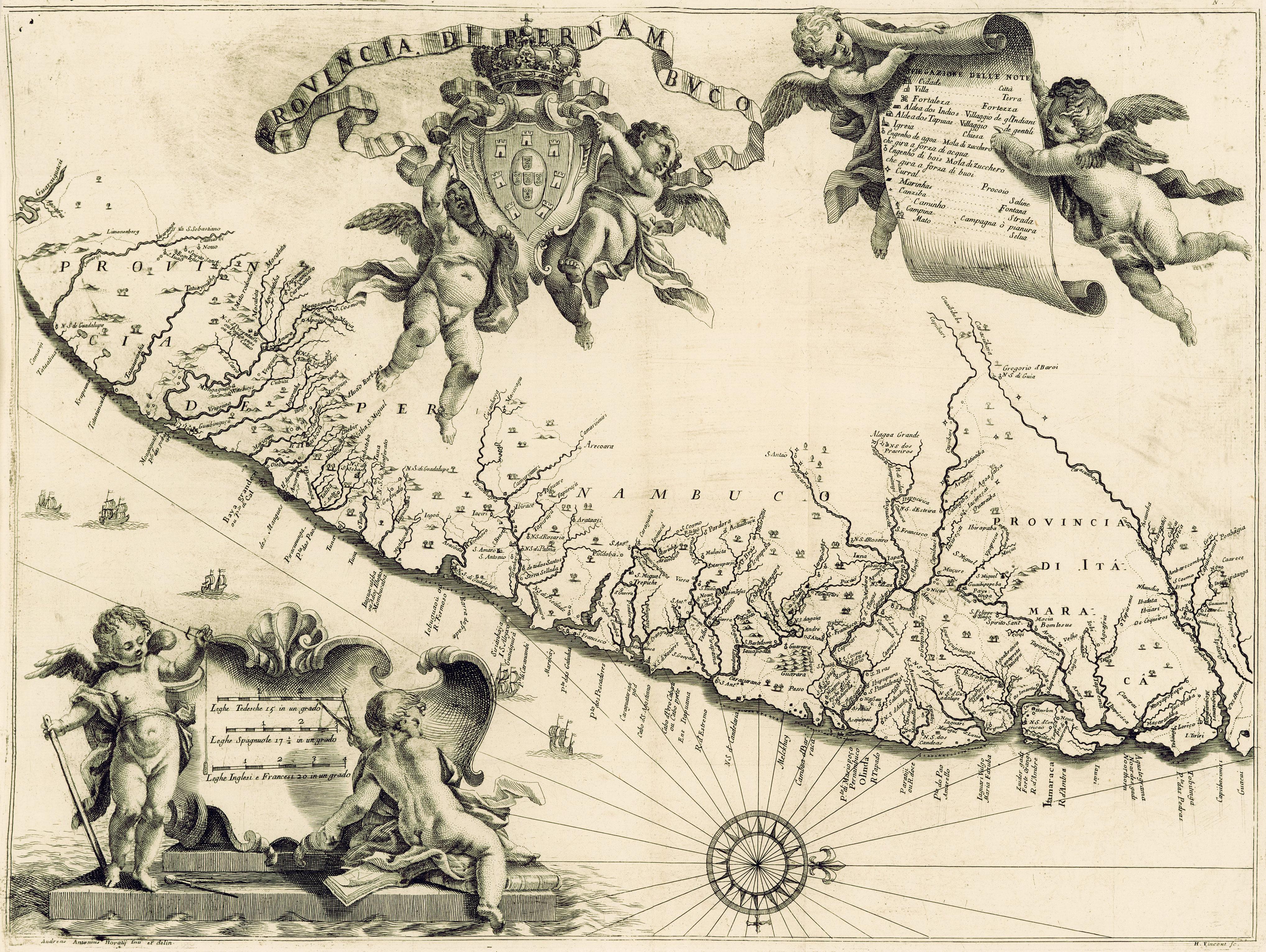 Map of the Province of Itamaracá (1698)